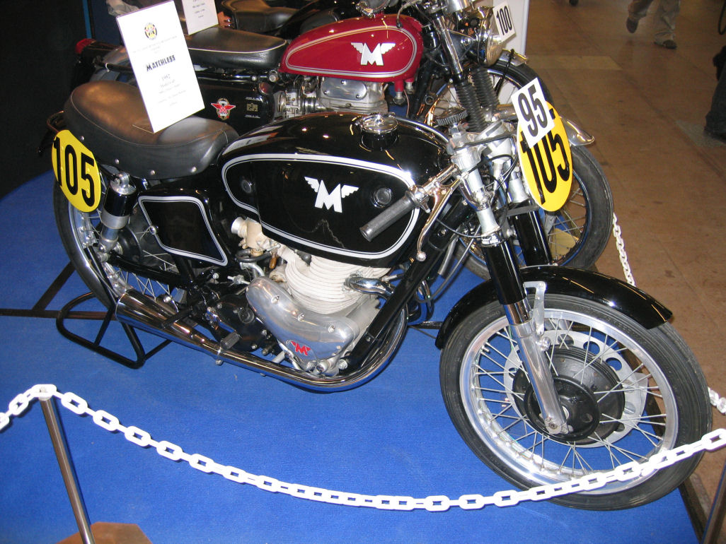 Classic lines of this early racing Matchless Another G450. In racing trim. For 1952, the first Model G45 twin with its 7R style heads came into being, the engine still recognisably G9 based but housed in a 7R AJS based frame etc. This time Derek Farrant won the Manx Grand Prix at 88.65 mph. AMC put the G45 into production and it was shown at Earls Court in November.[6] In 1953 there was a Clubman range of Matchless/AJS 350 cc and 500 cc singles, and the production model Matchless G45 500 twin became available. AMC withdrew from the world of works and one-off road racing at the end of the 1954